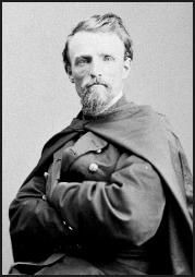 Photo of George Pearson Buell (1833-1883)